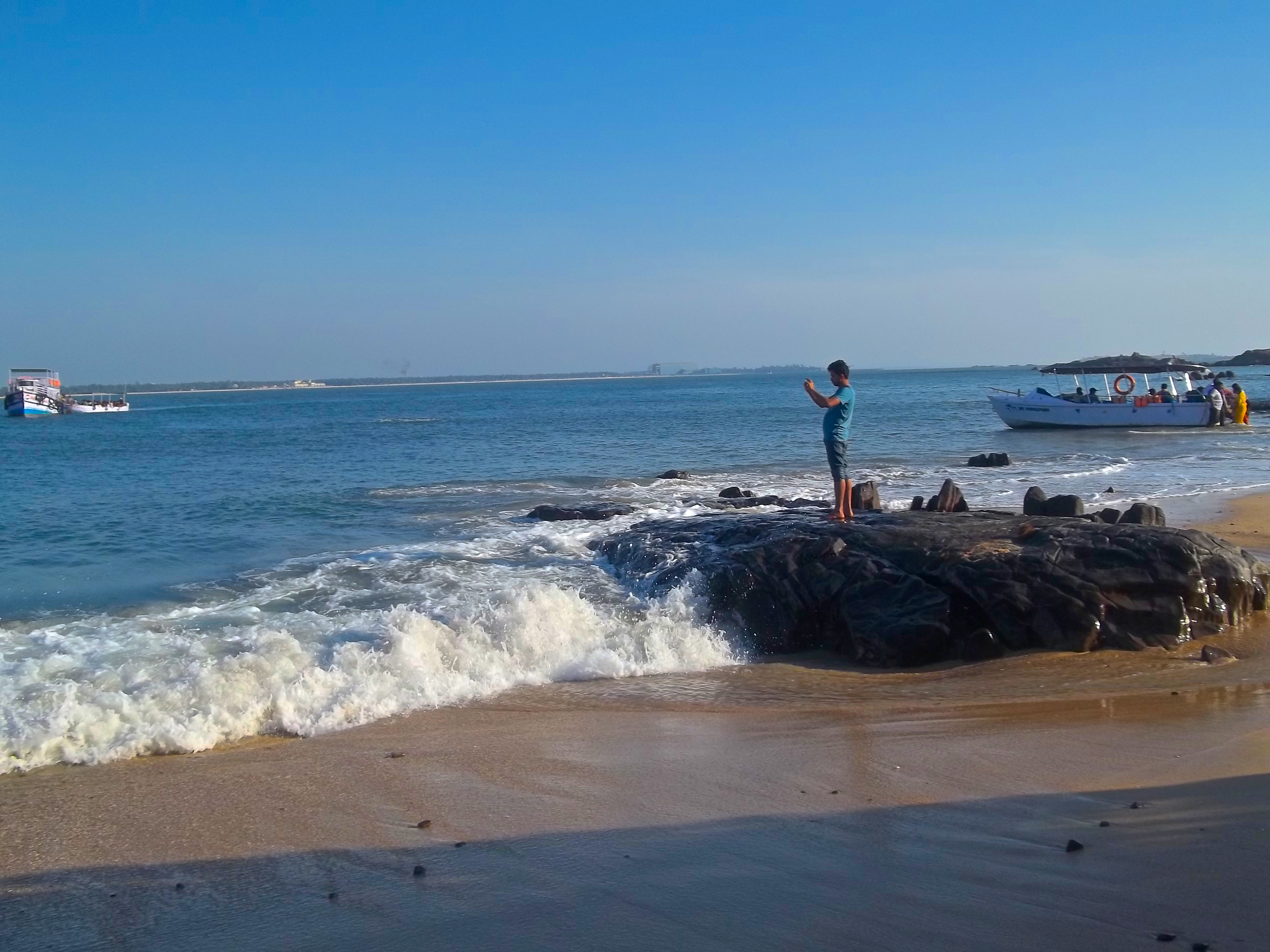 St. Mary's Islands, Malpe beach, Karnataka